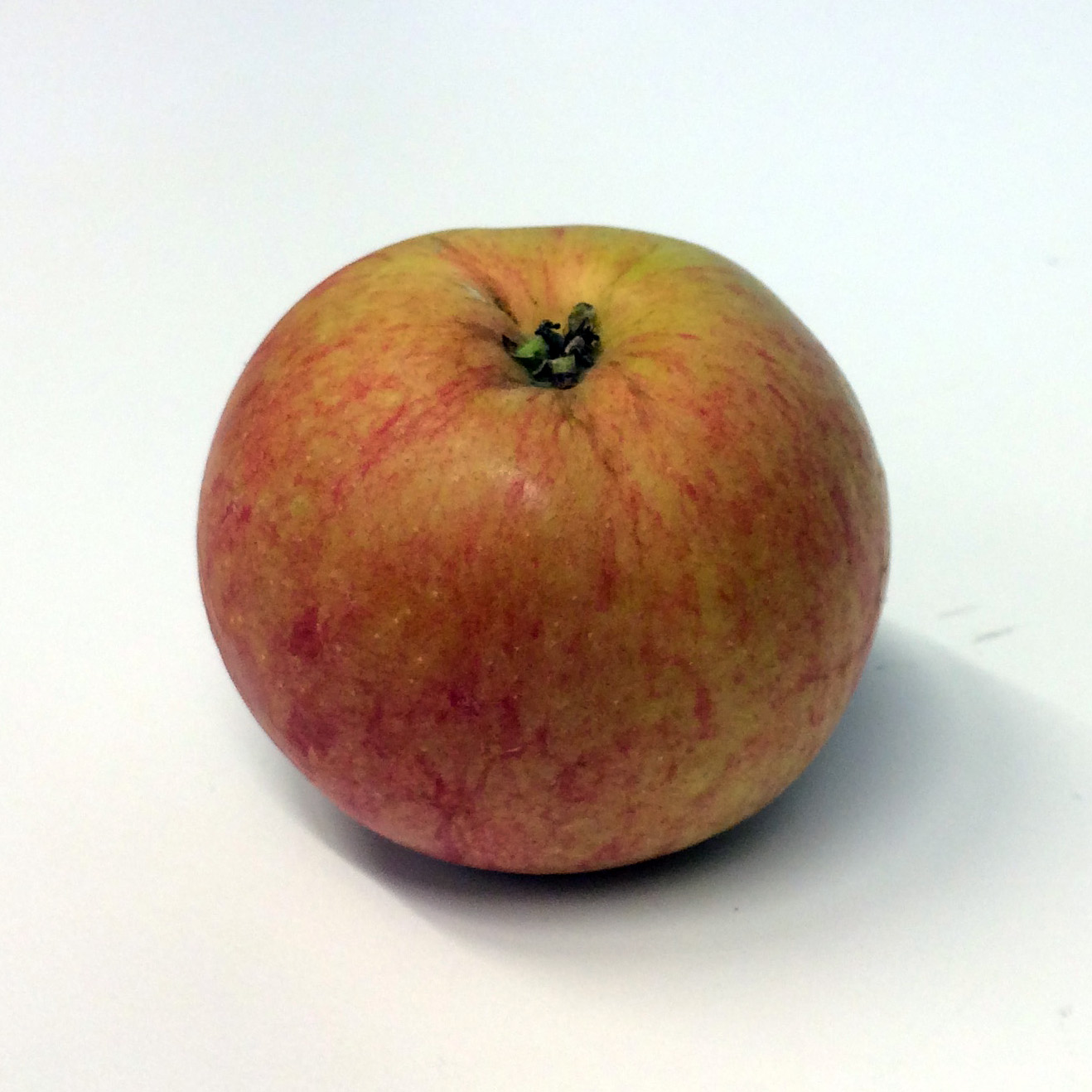 Apple of the cultivar Wealthy, photographed in conjunction with the Apple Festival at Nordiska museet, Stockholm, Sweden in September 2014.